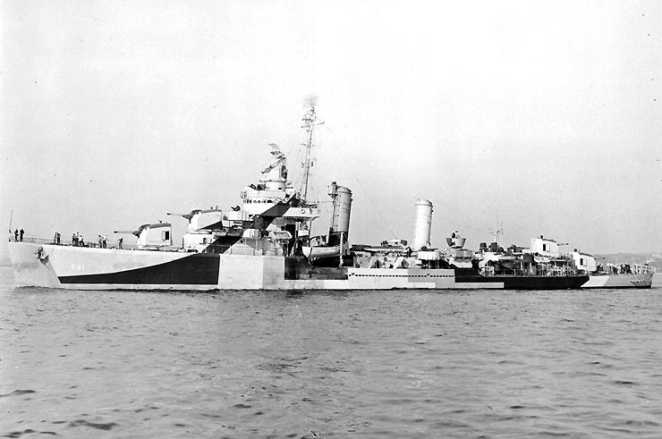 USS Tillman (DD-641) off the New York Navy Yard, 8 October 1944. She is painted in Camouflage Measure 32, Design 3D.